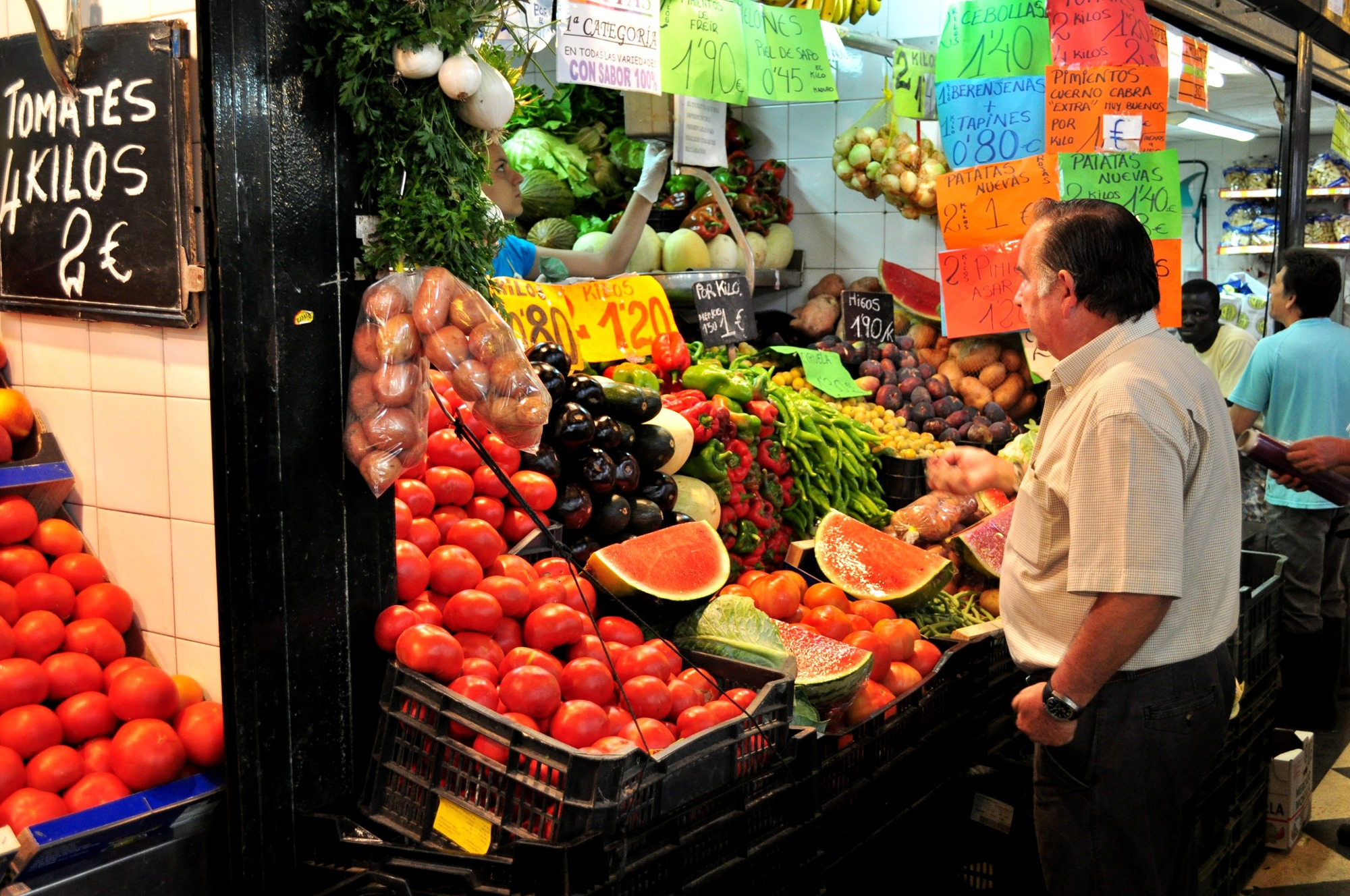 Fruit Stand, Central Market, Jerez